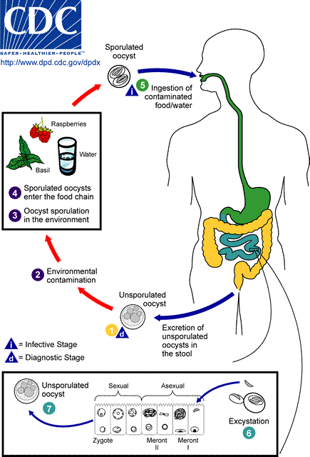 Cyclosporiasis (Cyclospora cayetanesis) When freshly passed in stools, the oocyst is not infective (1) (thus, direct fecal-oral transmission cannot occur; this differentiates Cyclospora from another important coccidian parasite, Cryptosporidium). In the environment (2), sporulation occurs after days or weeks at temperatures between 22°C to 32°C, resulting in division of the sporont into two sporocysts, each containing two elongate sporozoites (3). Fresh produce and water can serve as vehicles for transmission (4) and the sporulated oocysts are ingested (in contaminated food or water) (5). The oocysts excyst in the gastrointestinal tract, freeing the sporozoites which invade the epithelial cells of the small intestine (6). Inside the cells they undergo asexual multiplication and sexual development to mature into oocysts, which will be shed in stools (7). The potential mechanisms of contamination of food and water are still under investigation.